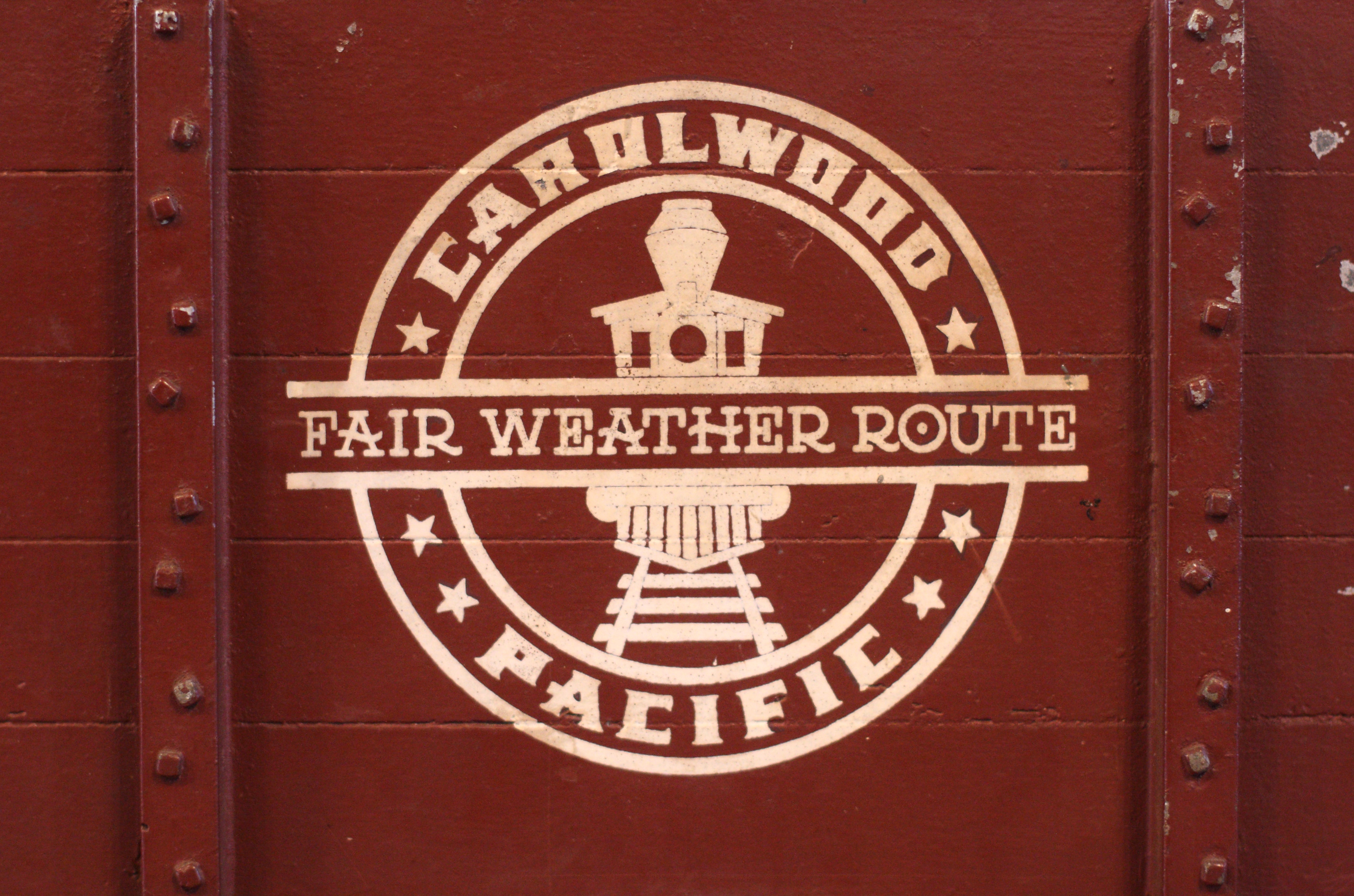 Logo of Walt Disney's ridable miniature Carolwood Pacific Railroad. The logo was created sometime between 1949 and 1950.